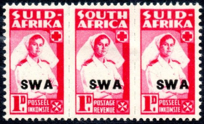 Stamps produced in South Africa during World War two and overprinted for use in South West Africa (now Namibia). The stamps were rouletted vertically as a wartime economy measure so that three stamps could be produced from the same amount of paper normally used to produce one.